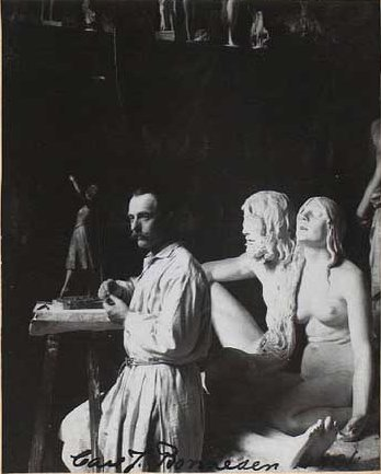 Carl J. Bonnesen photographed in his studio; seen in the background is the model for the group statue 'Adam og Eva ved Abels lig' (1902) for which he received the Eibeschütz Prize. It was acquired by the Danish National Gallery Museum for Kunst og placeret i anlægget foran museet.